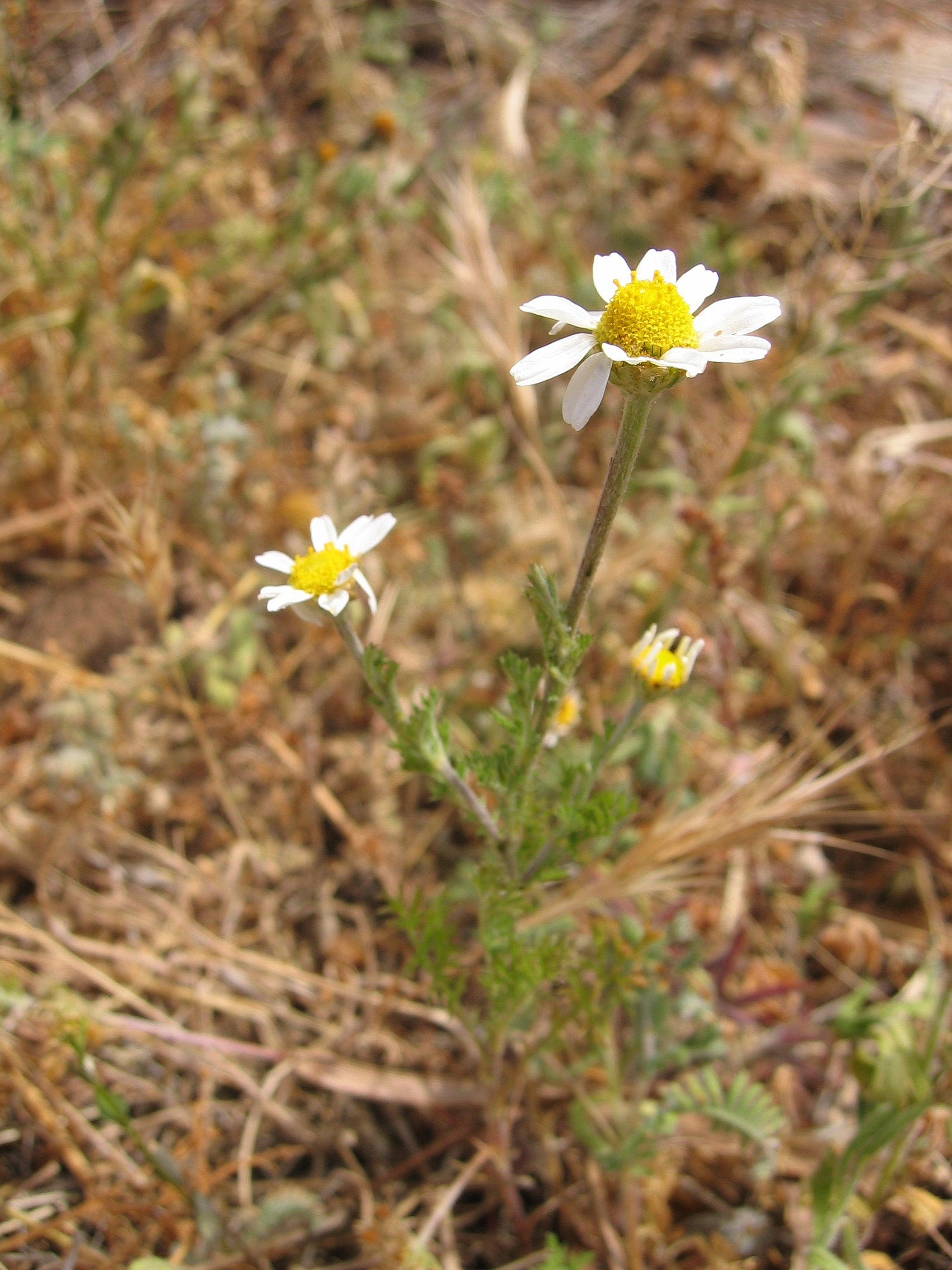 Anthemis arvensis, Calvi, Corse, France